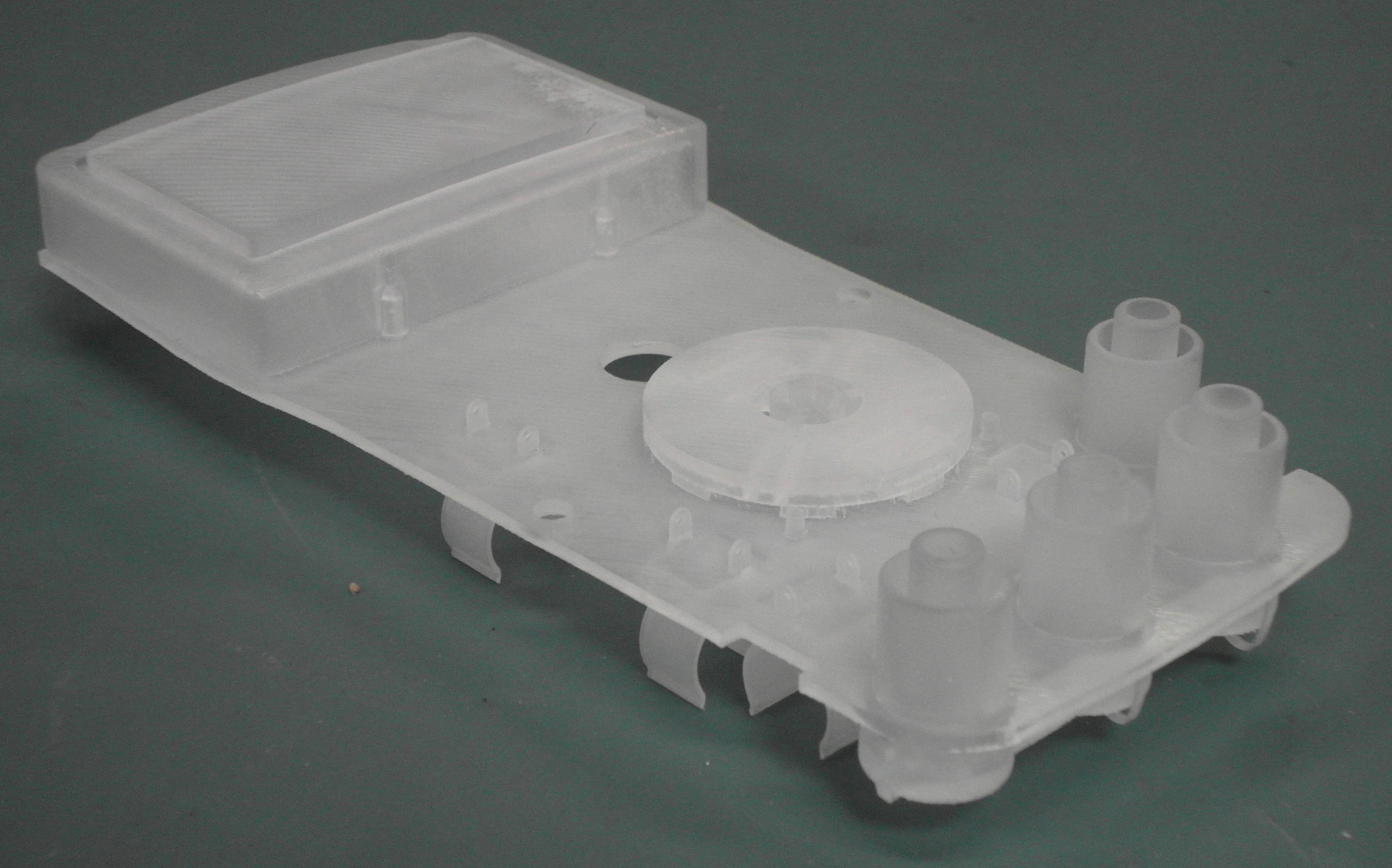 An example of a complex SLA 3D printed electronic circuit board PCB with various components to simulate the final product.